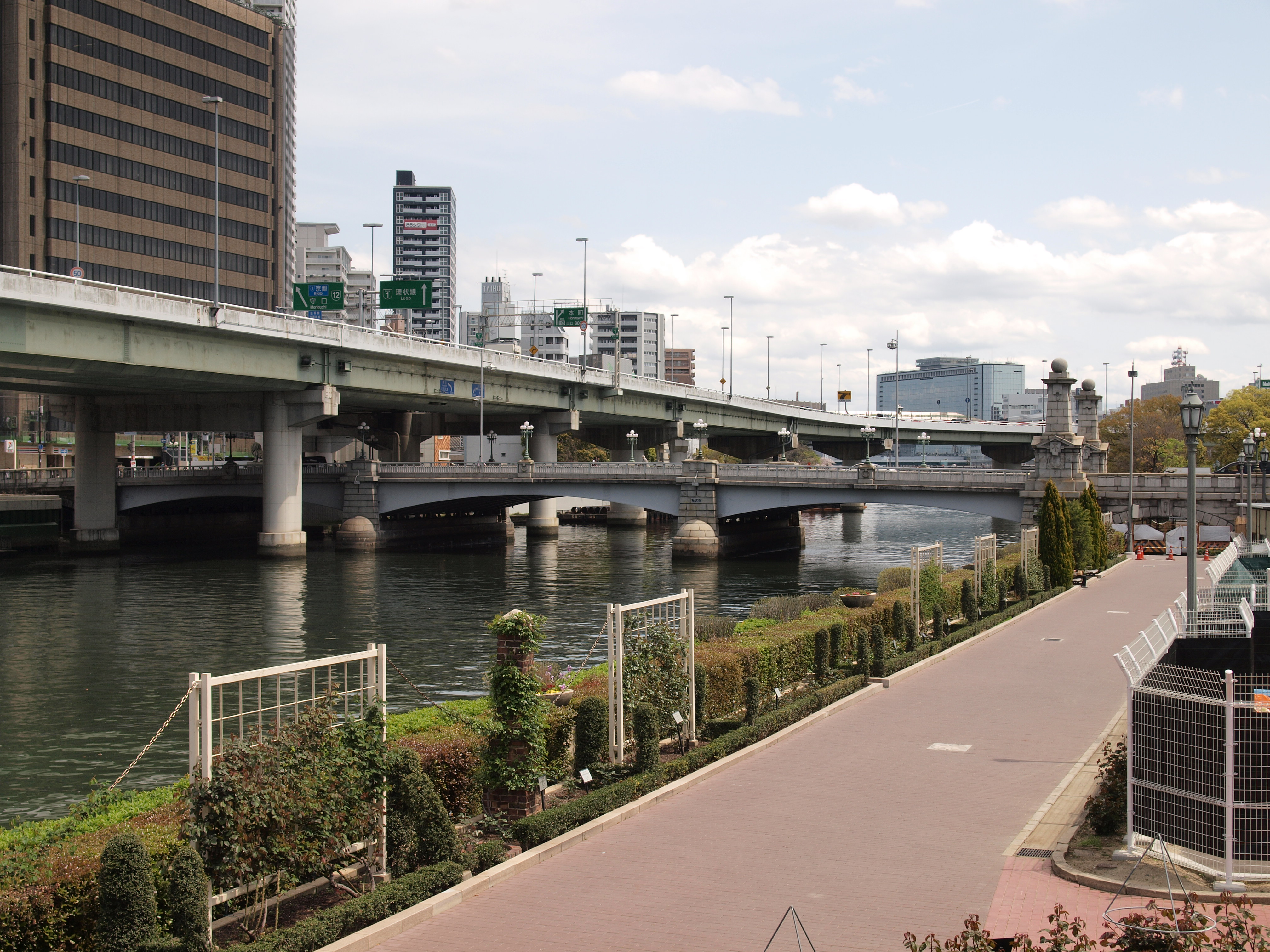 Naniwa-bashi (Bridge), Chuo-ku, Osaka